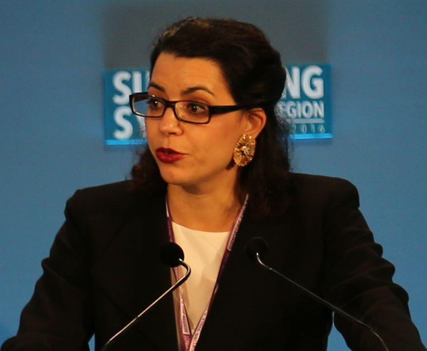 Amel Karboul, Secretary General of Maghreb Economic Forum, addresses the education pledging session at the Supporting Syria conference. The Supporting Syria conference delivered commitments to support 1.7 million children in education across the region.